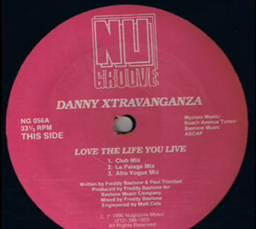 Record label for "Love the Live You Live" by Danny Xtravaganza, 1990.